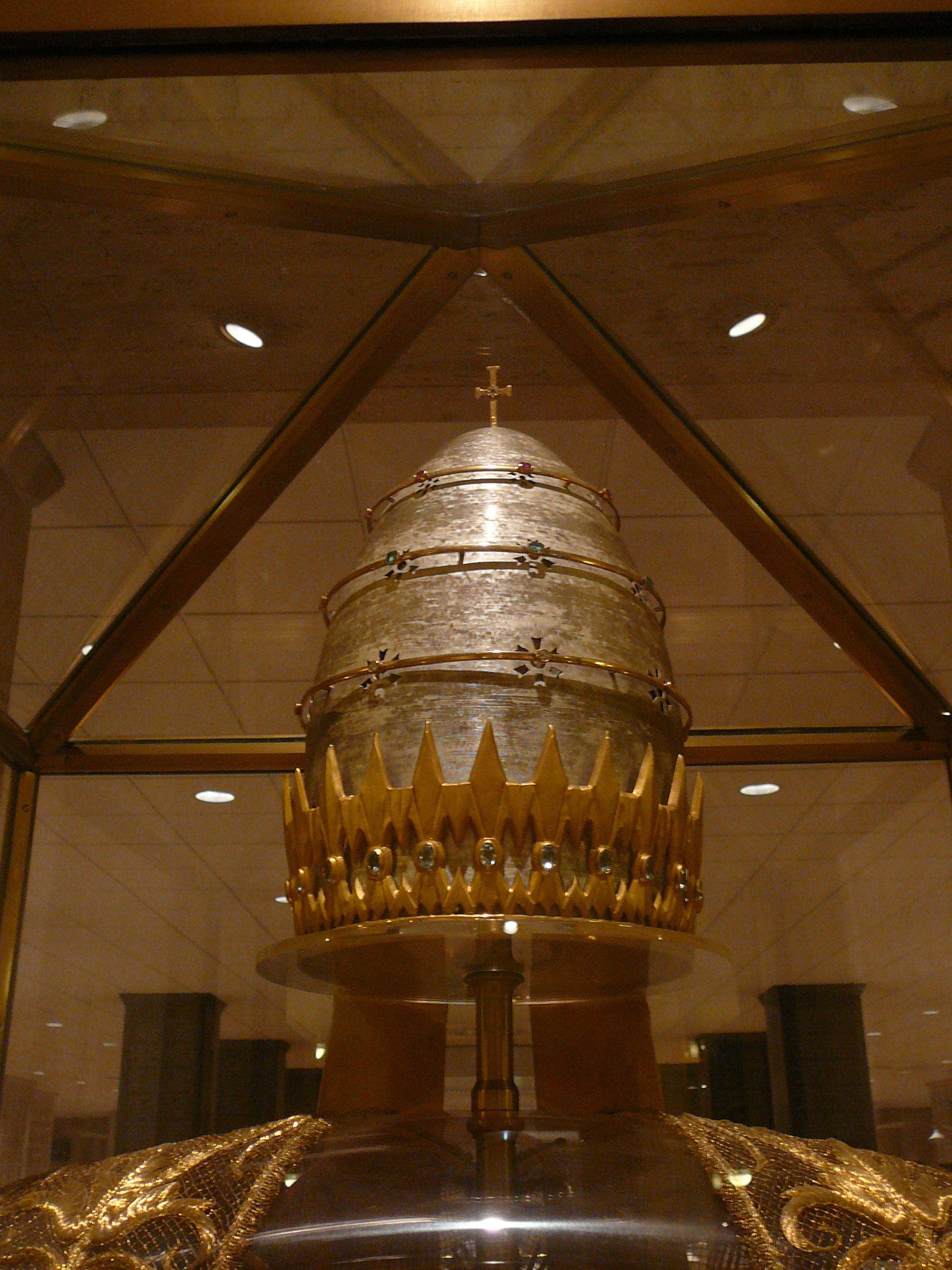 Papal Tiara at the Basilica of the National Shrine of the Immaculate Conception